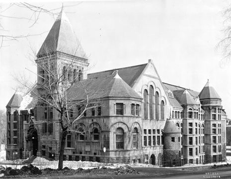 Redpath Library Building, McGill University, as seen from McTavish Street in 1935. Architect: Percy Erskine Nobbs